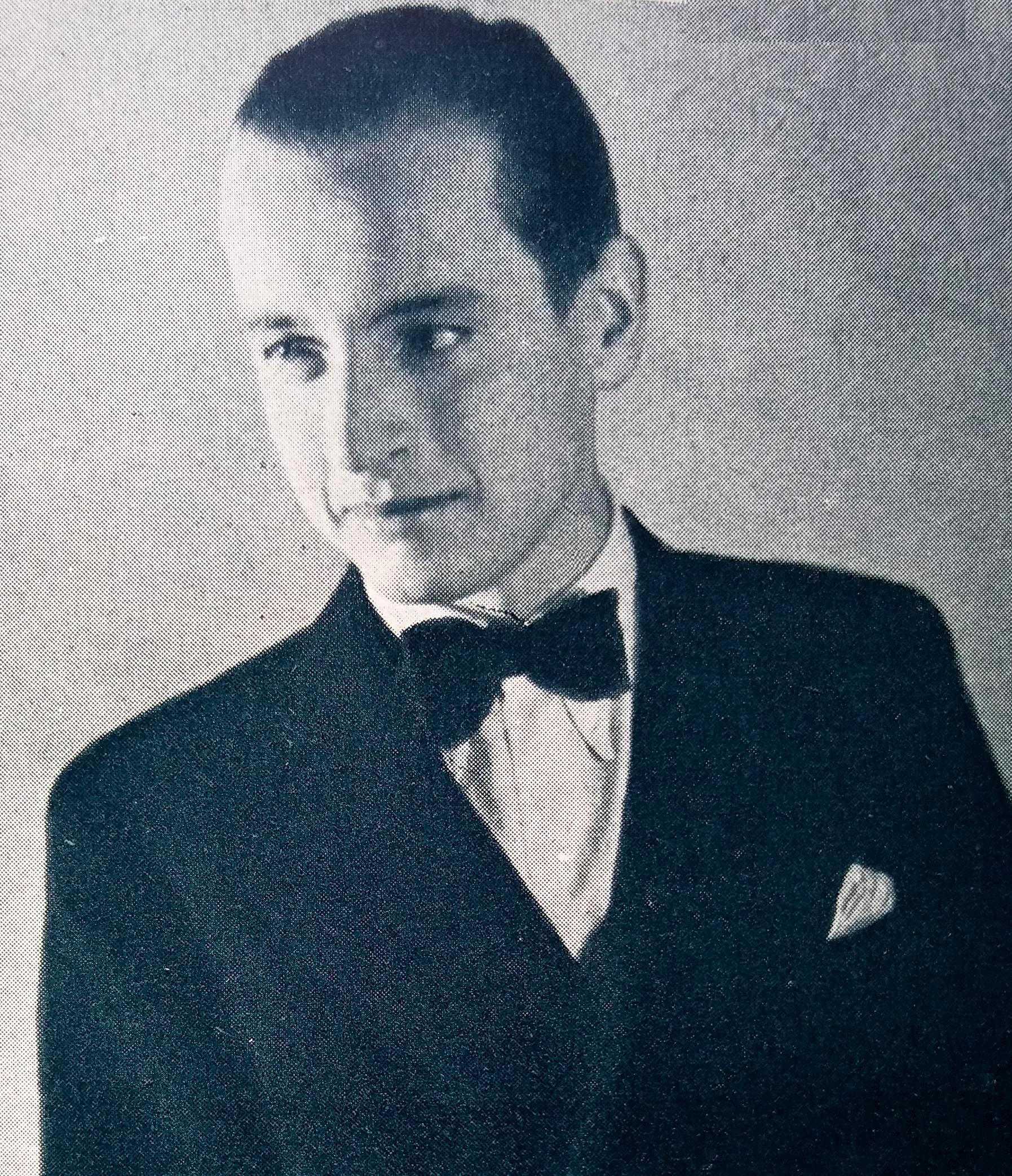 Svatopluk Beneš, Czech actor (photo before 1938)